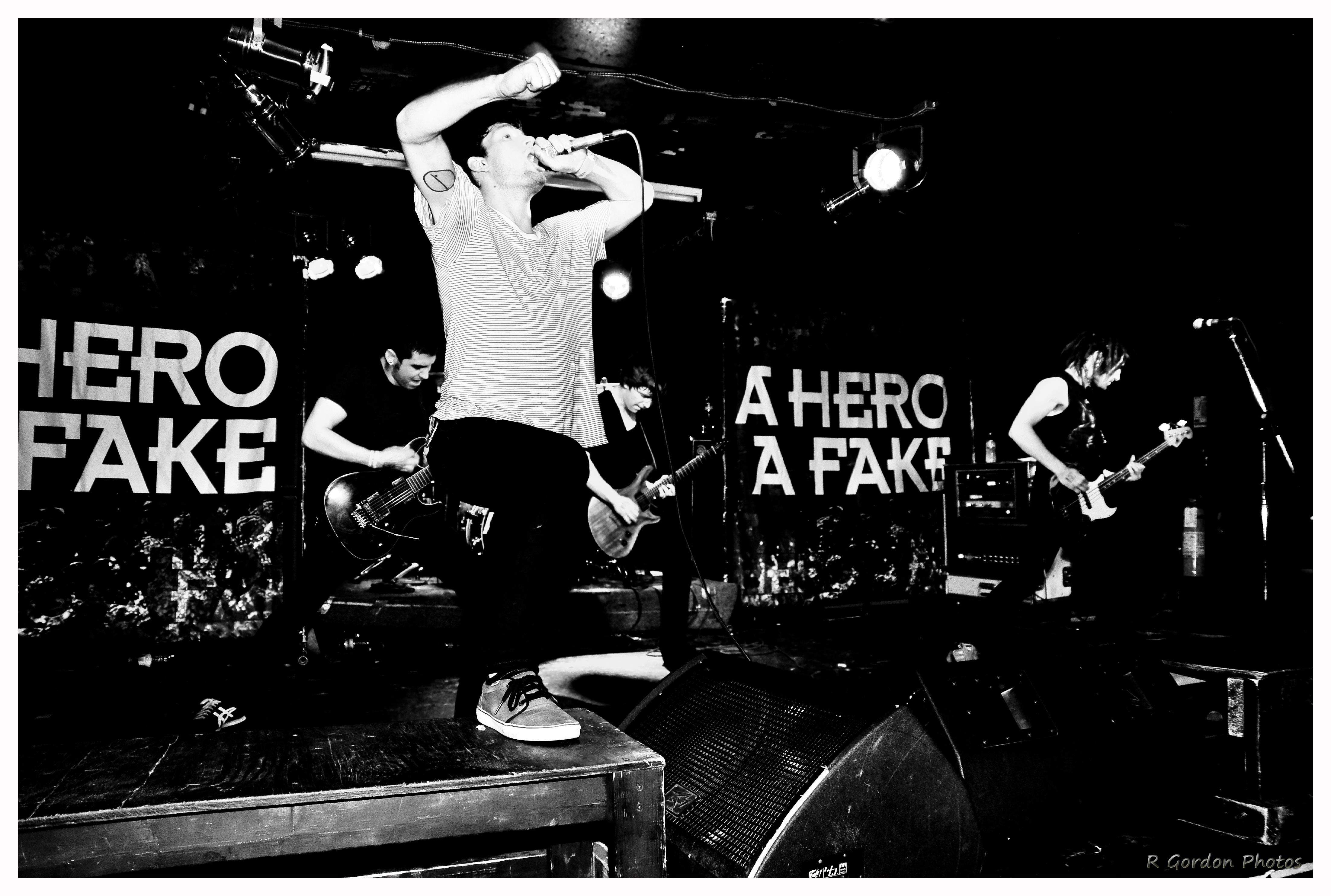 "A Hero A Fake" band playing in Sacramento, CA. December 8, 2011.